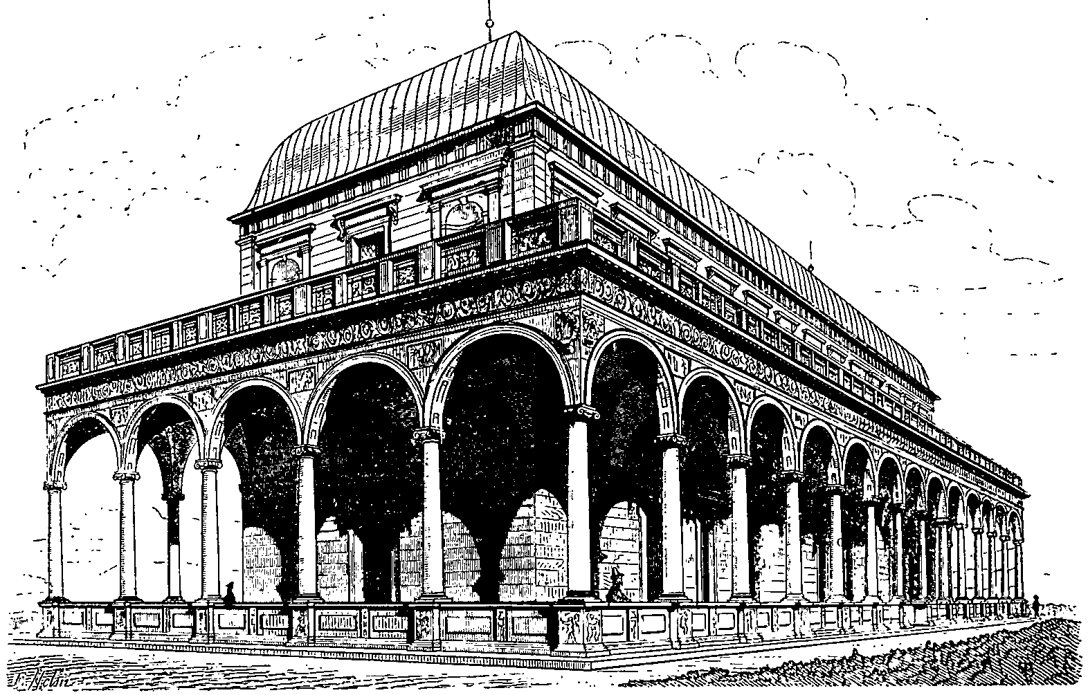 Detail (Figure 98) from page 295 of Palustre's L’Architecture de la Renaissance, 1892